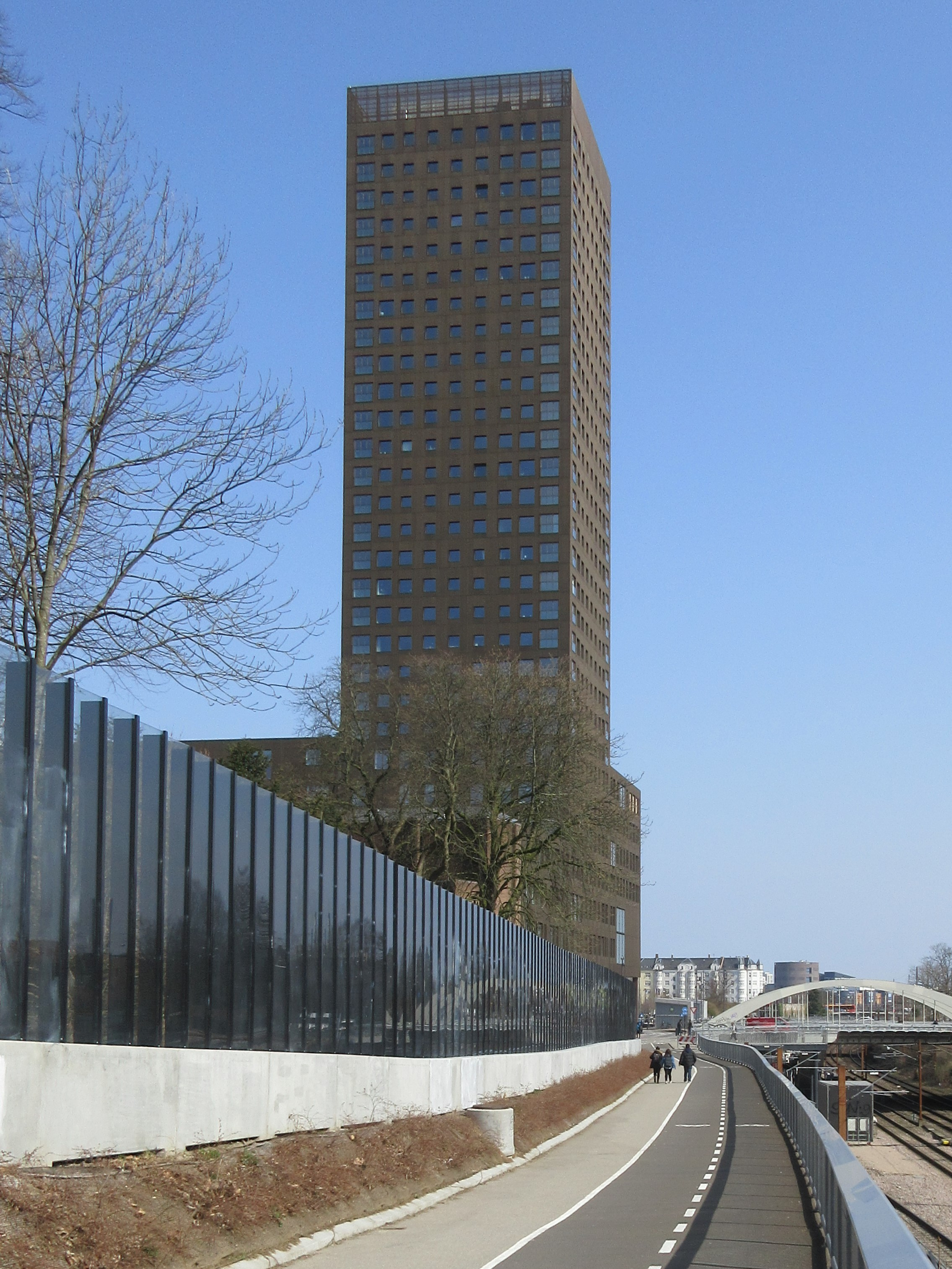 Bohrs Tårn in Copenhagen, Denmark